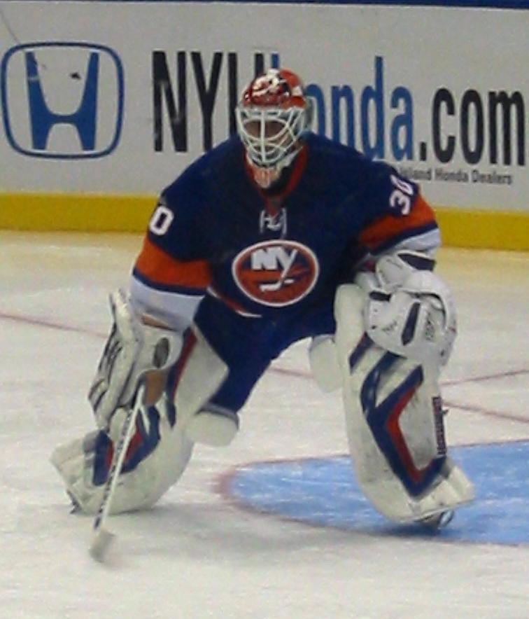 Dwayne Roloson in goal for the New York Islanders.